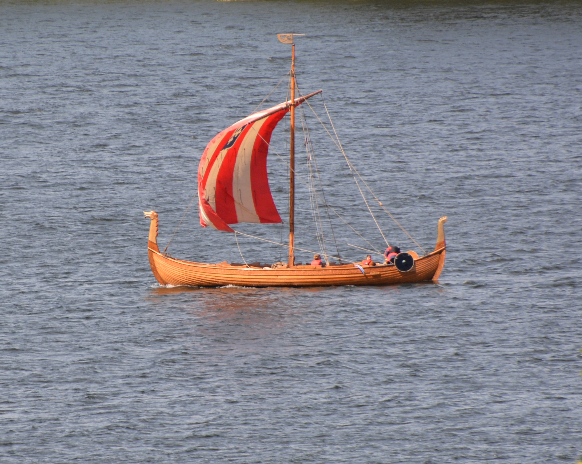 Bjarke, downscaled copy of the Oseberg ship